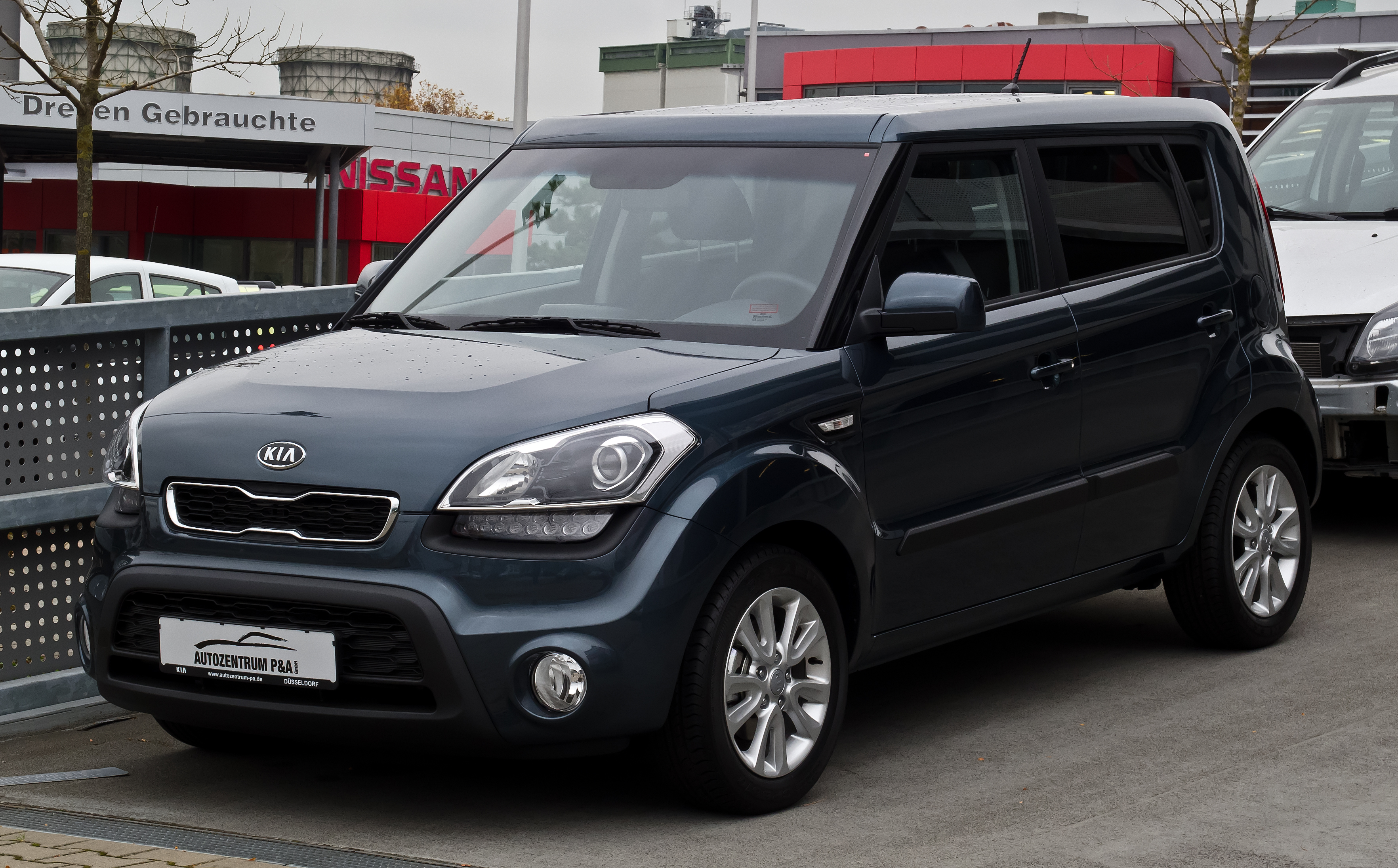 Kia Soul 1.6 GDI Edition 7 (Facelift)